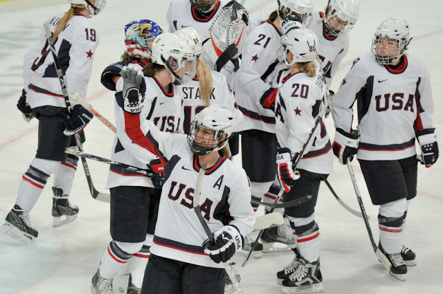 Women's Hockey, USA vs Russia, 2010 Vancouver Winter Olympics, Feb. 16, 2010